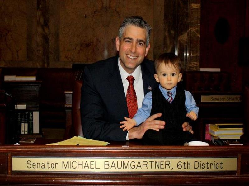 A photo of State Senator Michael Baumgartner and his son at his State Senate desk